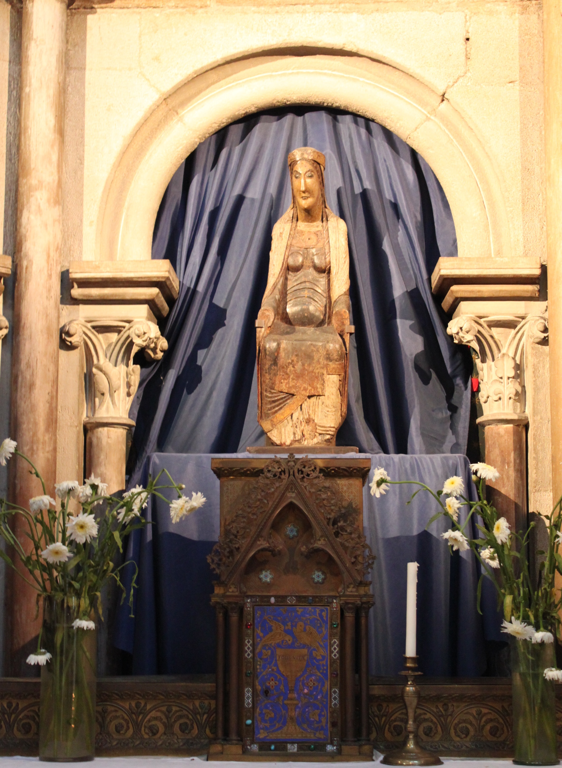 Notre-Dame church, Dijon, Burgundy, FRANCE